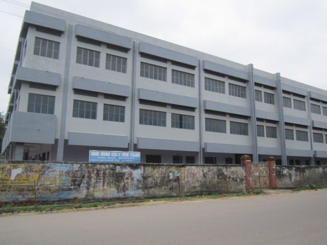 Anand Bhawan Girls Inter College, UP Borad wing, Dewa Road, Barabanki.